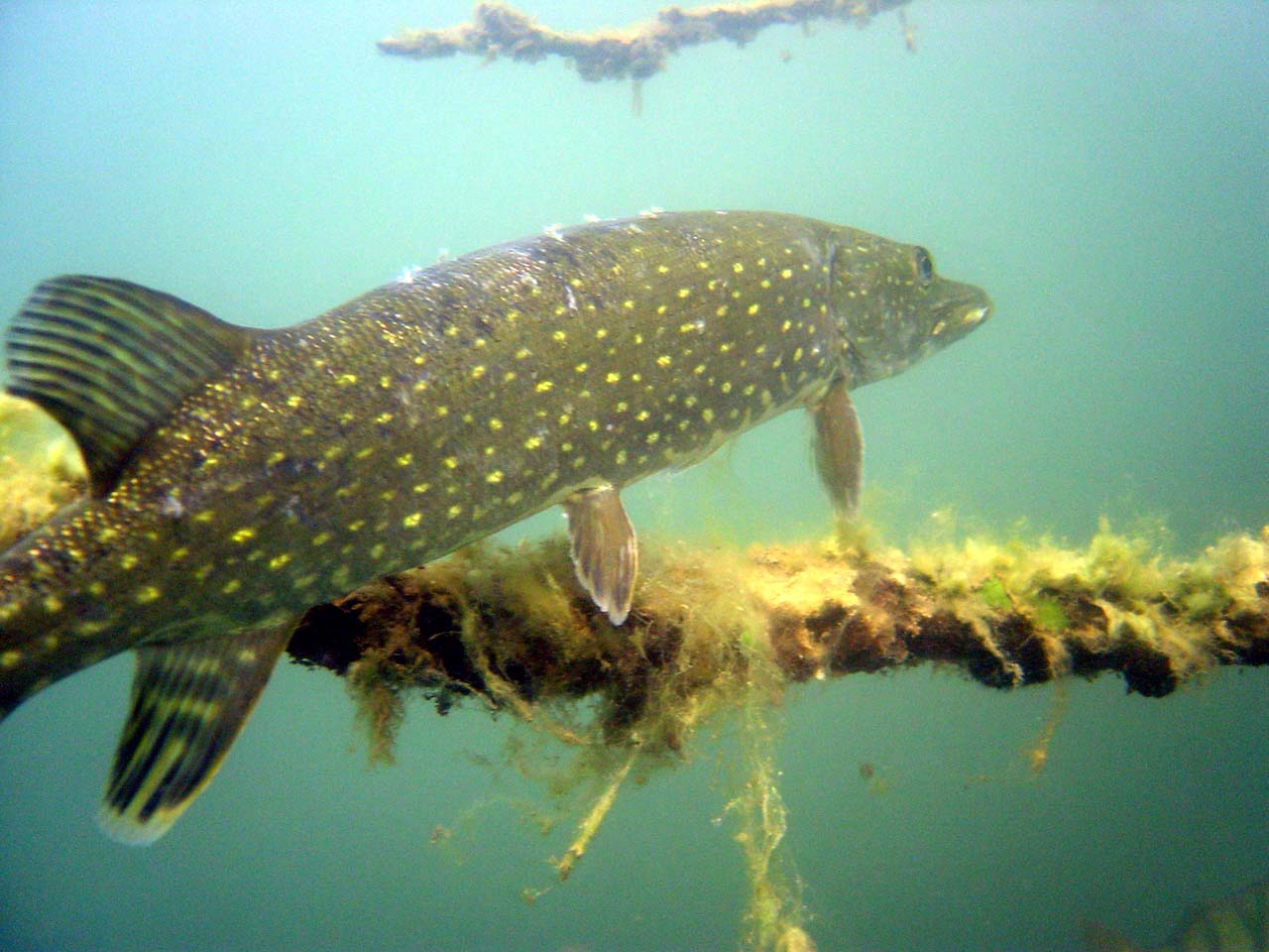 Northern Pike - picture taken with Sony DSC5 in 5 m depth in Straussee near Strausberg